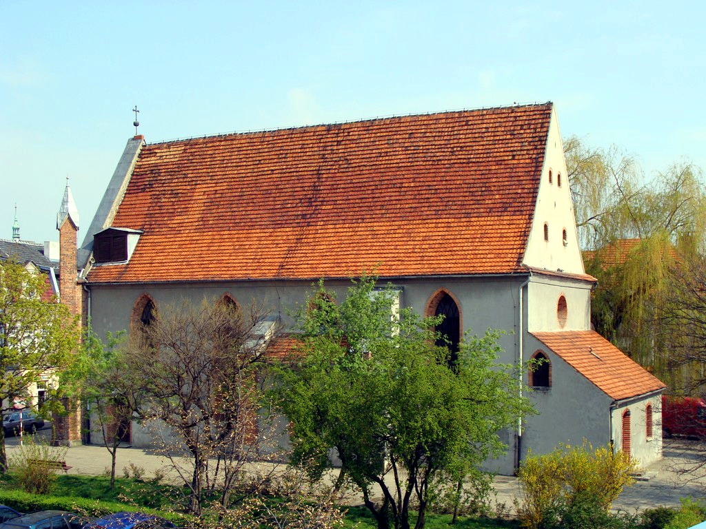 Śrem, Church of the Holy Spirit.